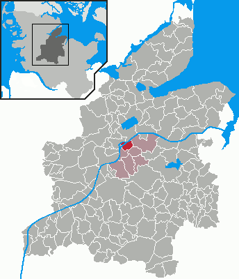 Locator maps of municipalities in Schleswig-Holstein - District Rendsburg-Eckernförde